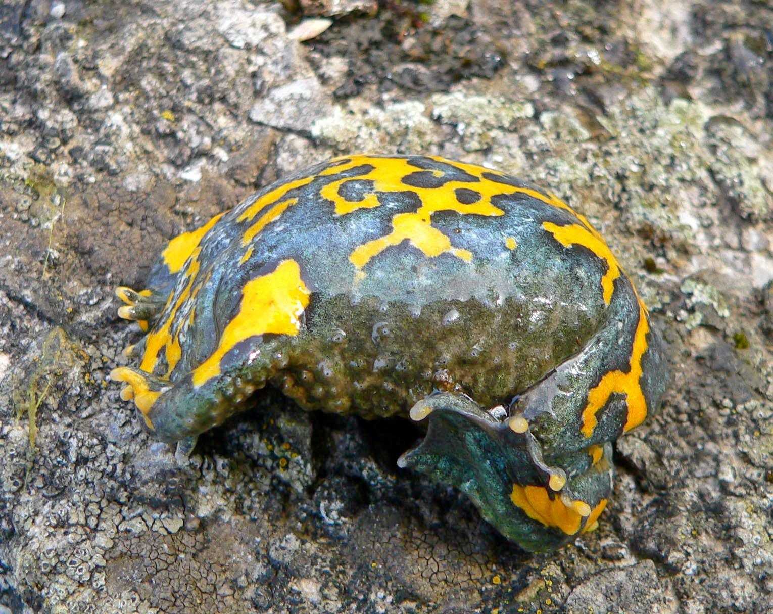 Yellow-bellied toad - unkenreflex, Croatia